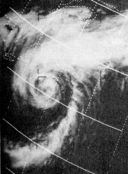 This ESSA 9 weather satellite image of Hurricane Beth was taken offshore Cape Cod on August 15, 1971 at 1727 UTC